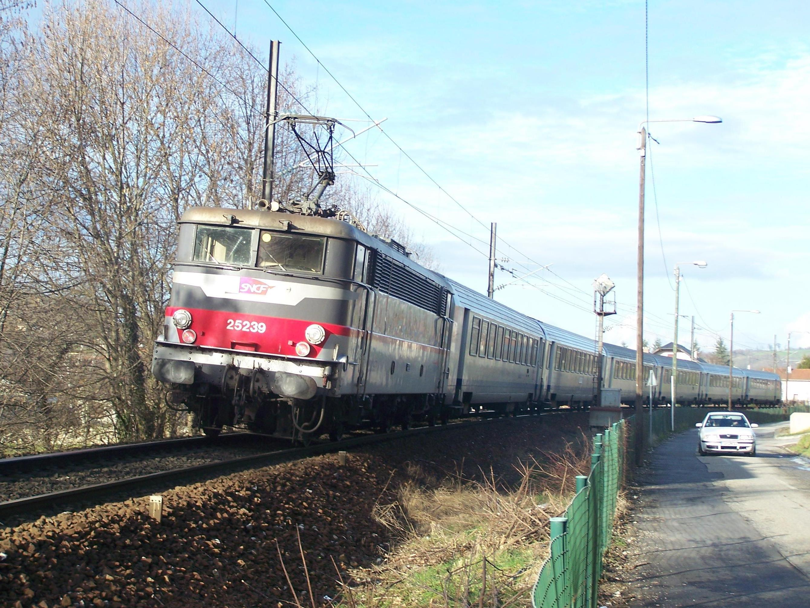 French locomotive Class SNCF BB 25239 pulling the train leaving Aix-les-Bains and going to Annecy in the departments of Savoie and Haute-Savoie.